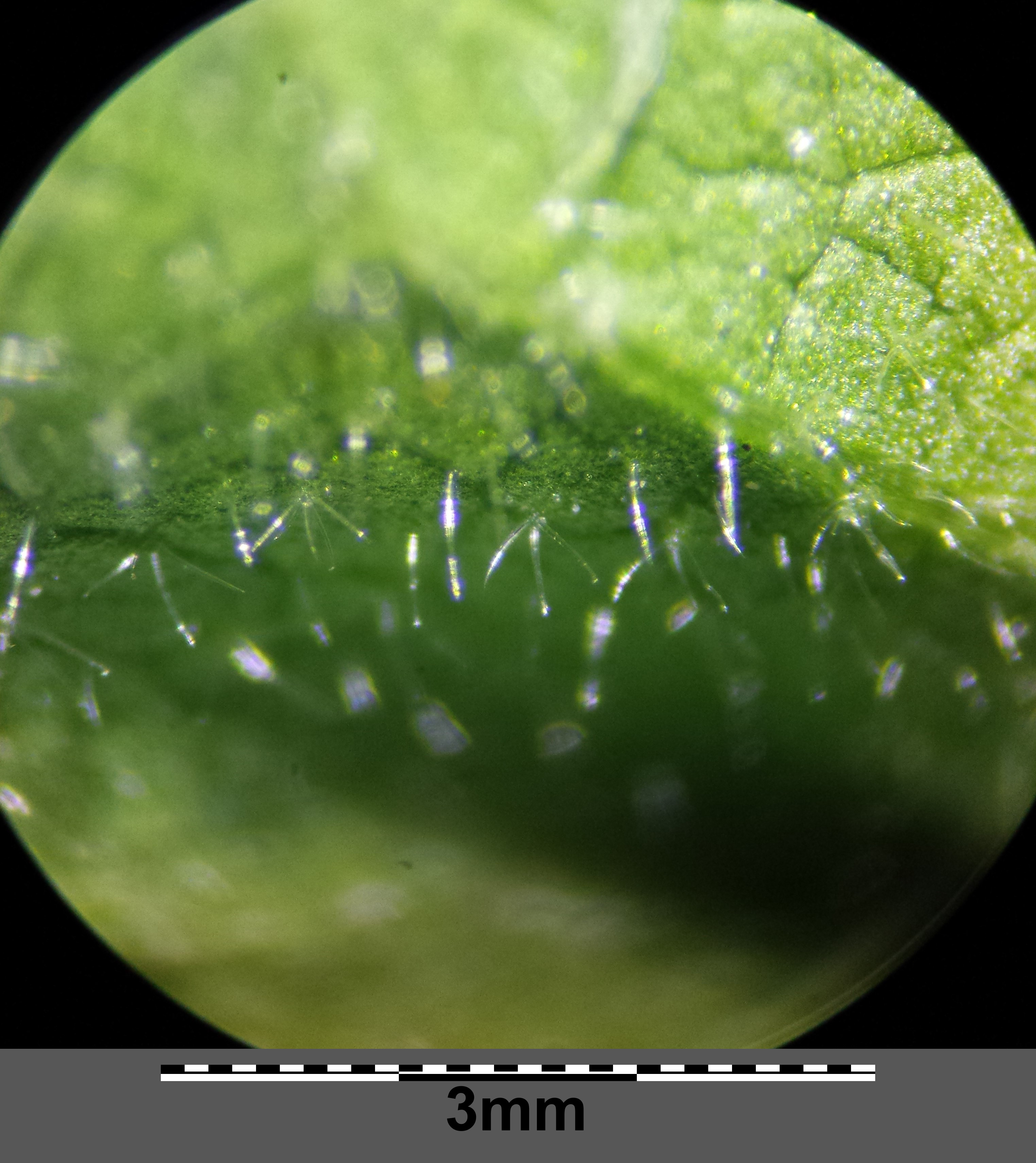 Bottom side of leaf with stellar hairs Taxonym: Malva verticillata ss Fischer et al. EfÖLS 2008 ISBN 978-3-85474-187-9 Location: Steinberg near Niederhollabrunn, district Korneuburg, Lower Austria - ca. 375 m a.s.l. Habitat: field of pumpkins